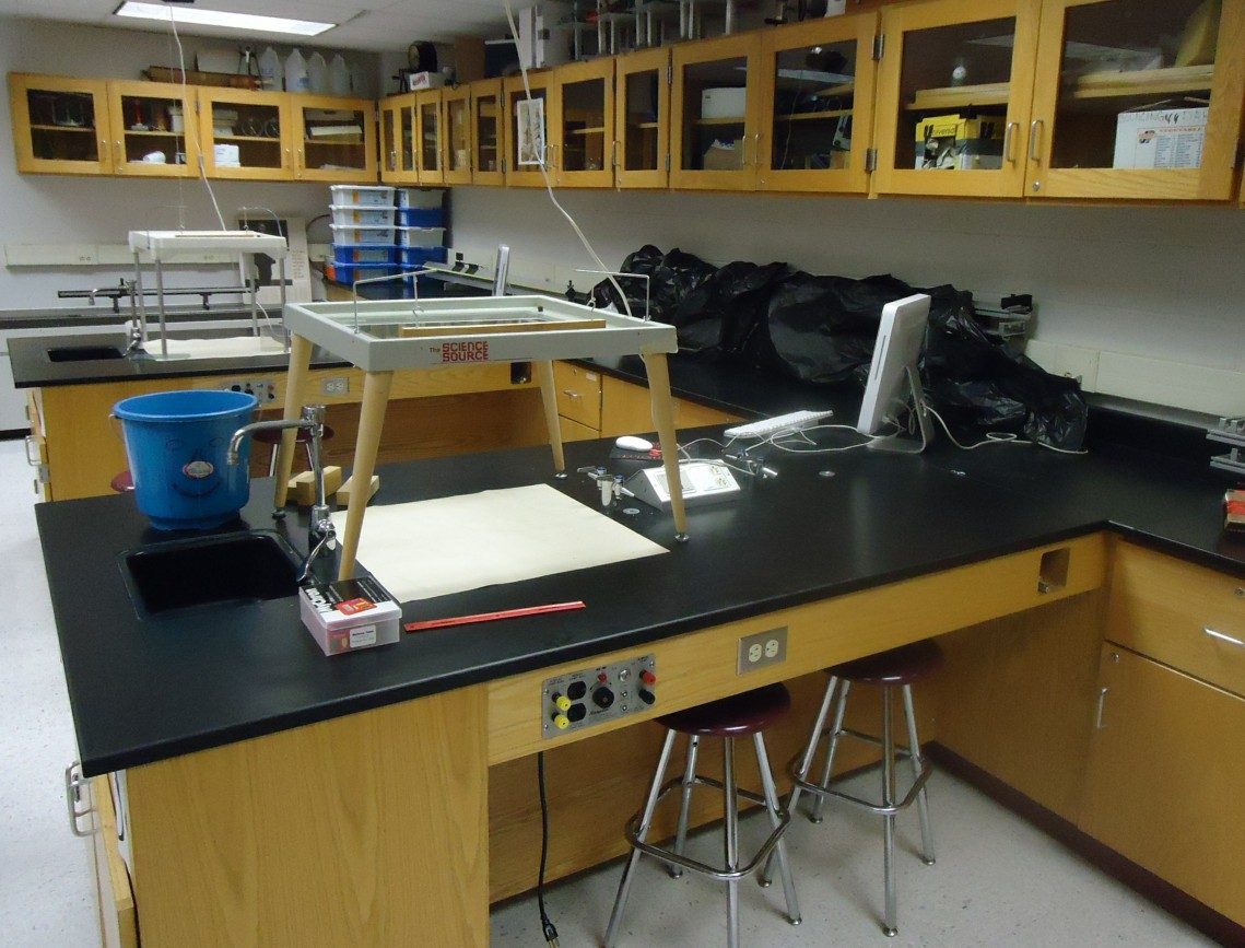 A physics classroom at Summit High School in Summit, New Jersey.